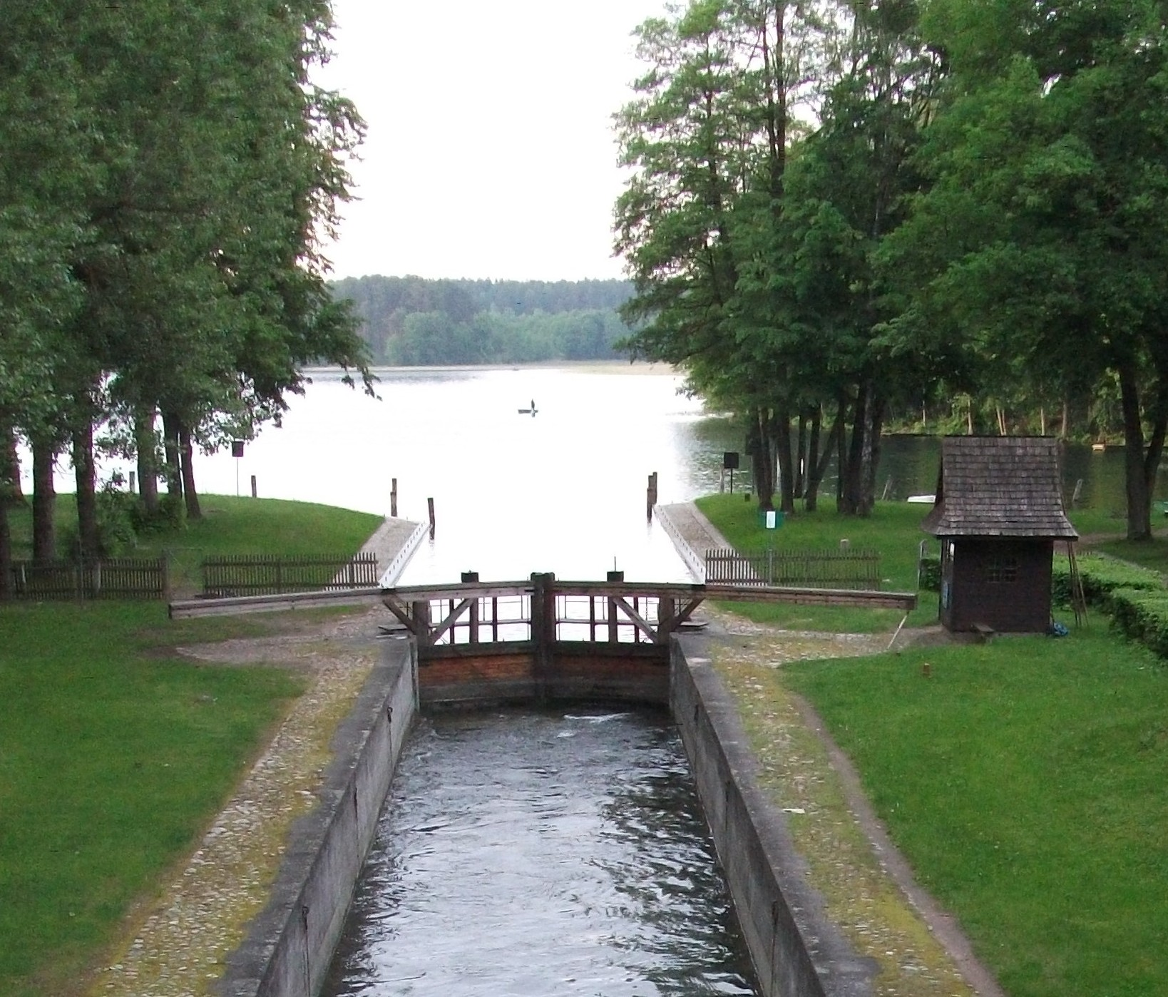 Fragment of Przewięź Lock on Augustów Canal, 1826-1827, in a village of Przewięź.